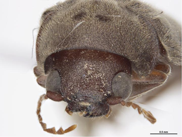 Xyletinus sp. collected in metro Santiago, Chile